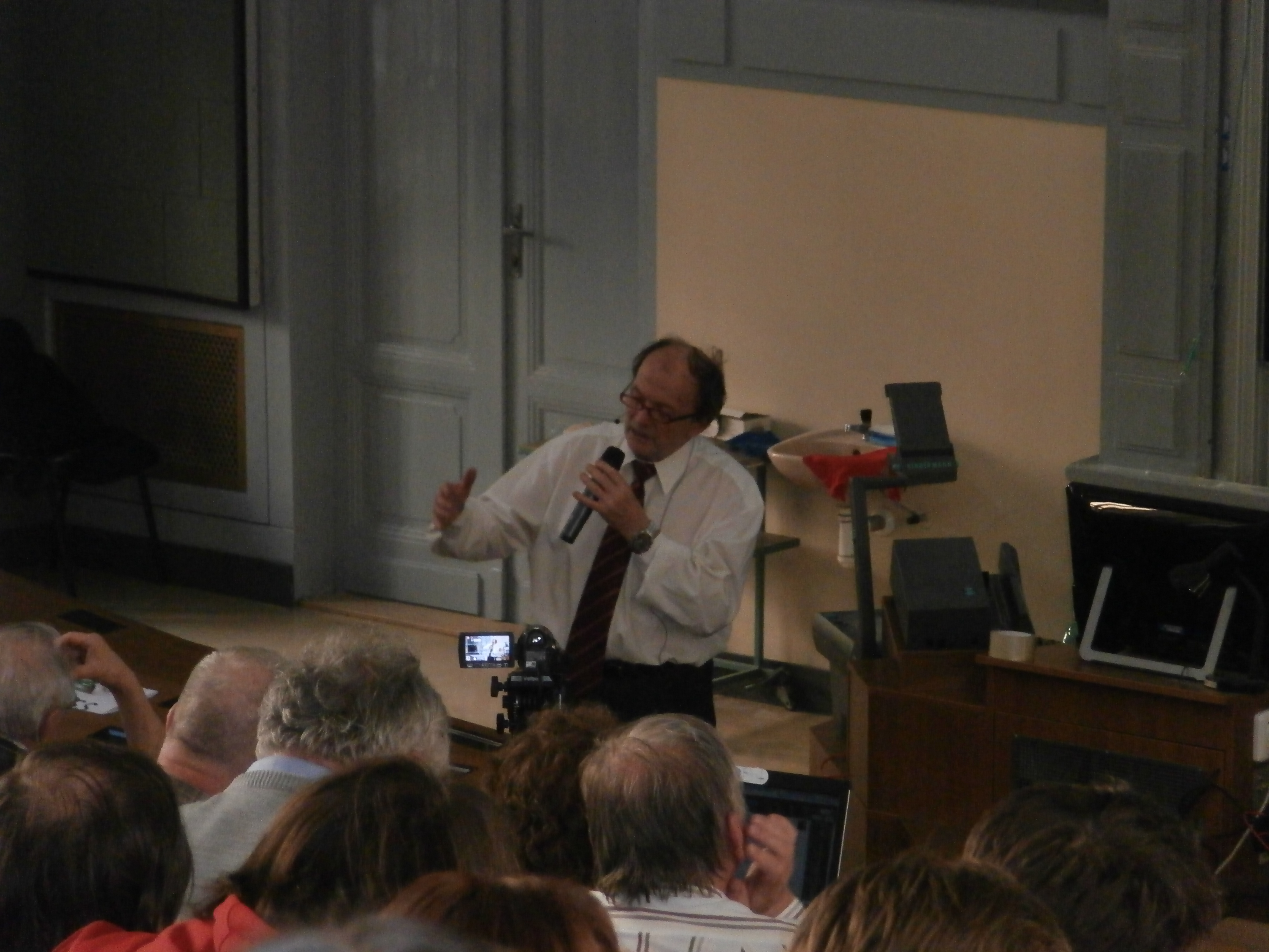 Dr. Petr Rajlich is giving a talk at the Faculty of Science, Charles University in Prague on Earth Day 2013.